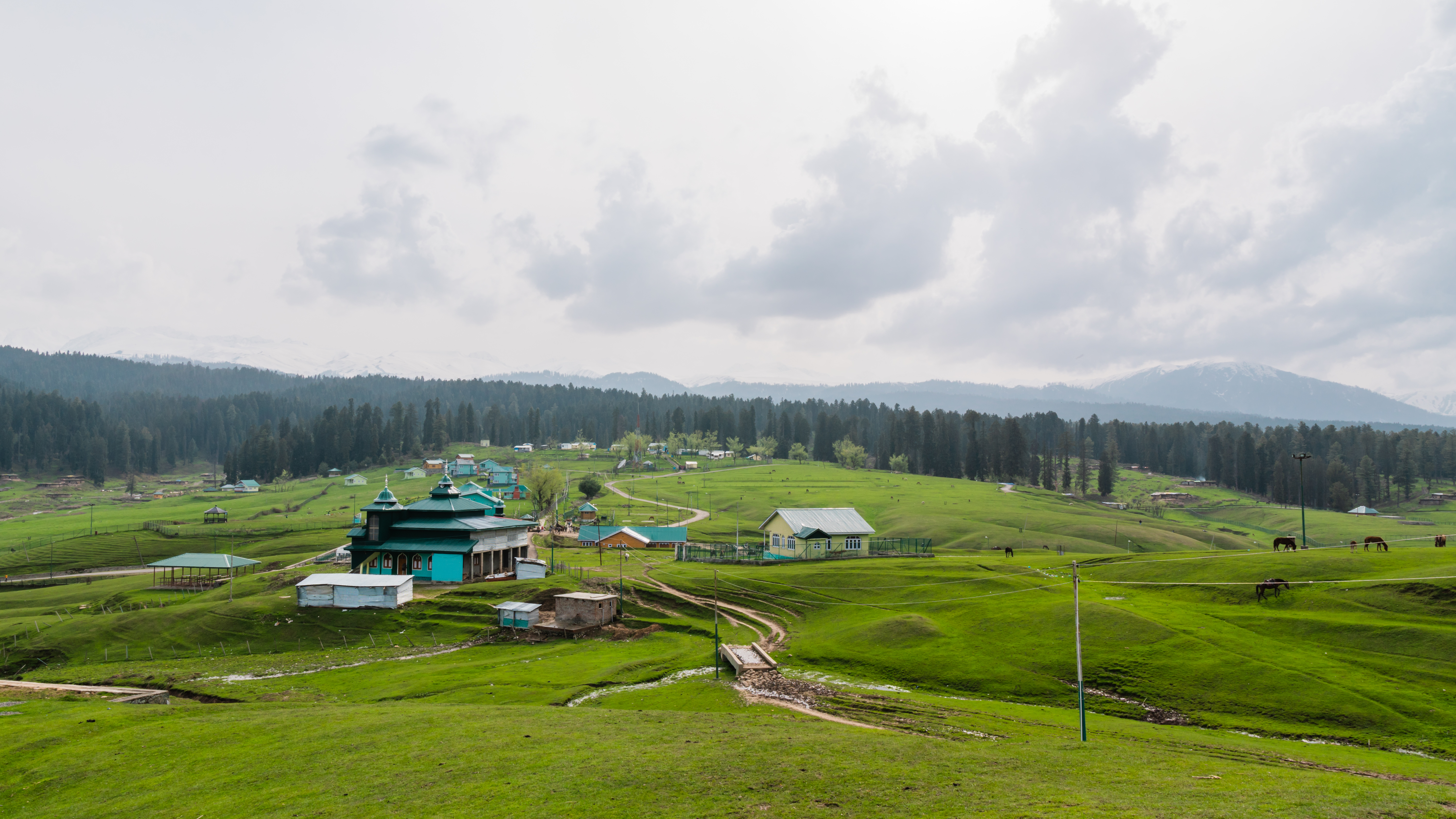 Yusmarg or Yousmarg (meaning 'Meadow of Jesus') is a hill station in the western part of Kashmir Valley in the Indian state of Jammu and Kashmir.